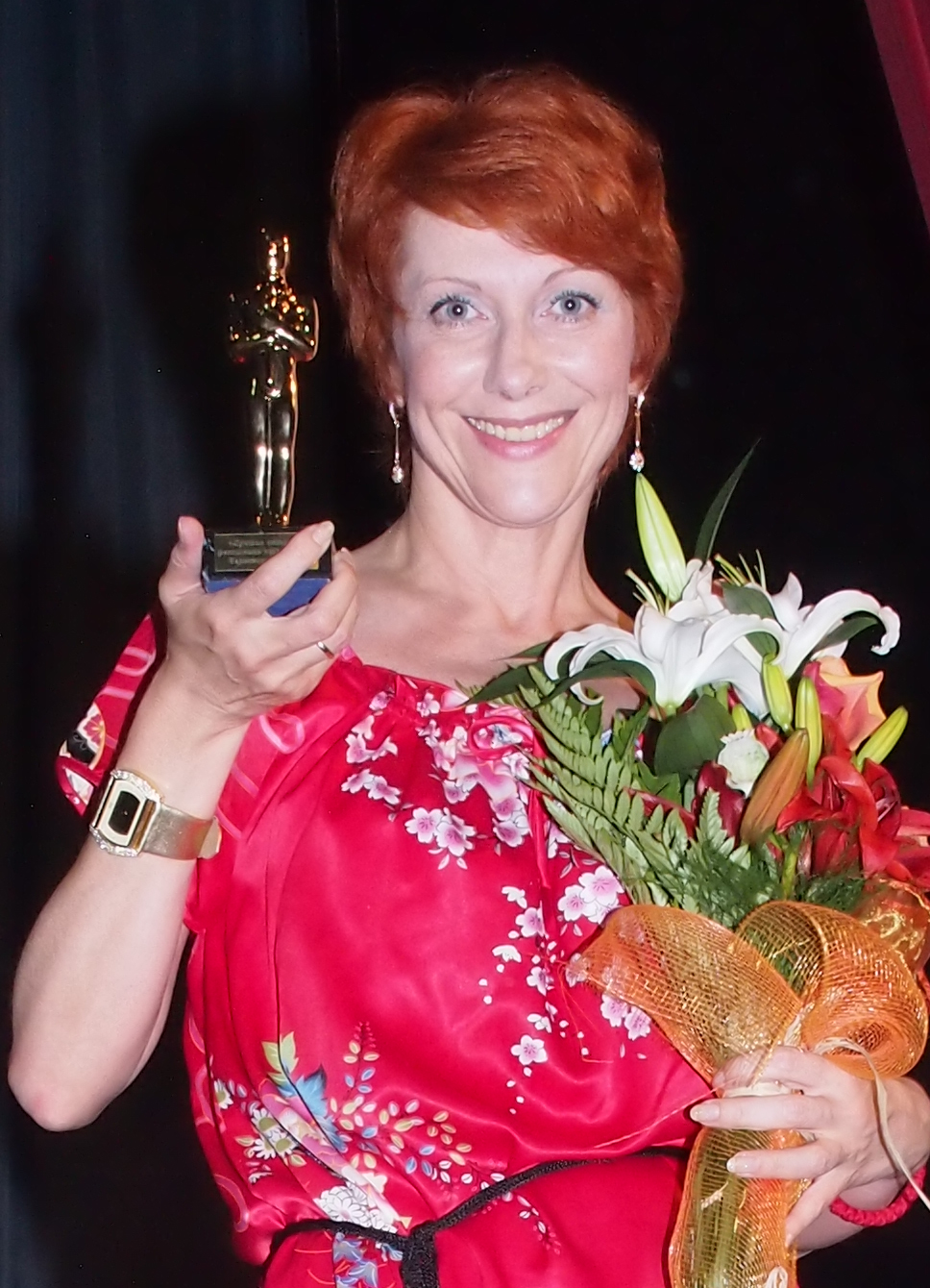 Stashenko Oxana Russian Actress